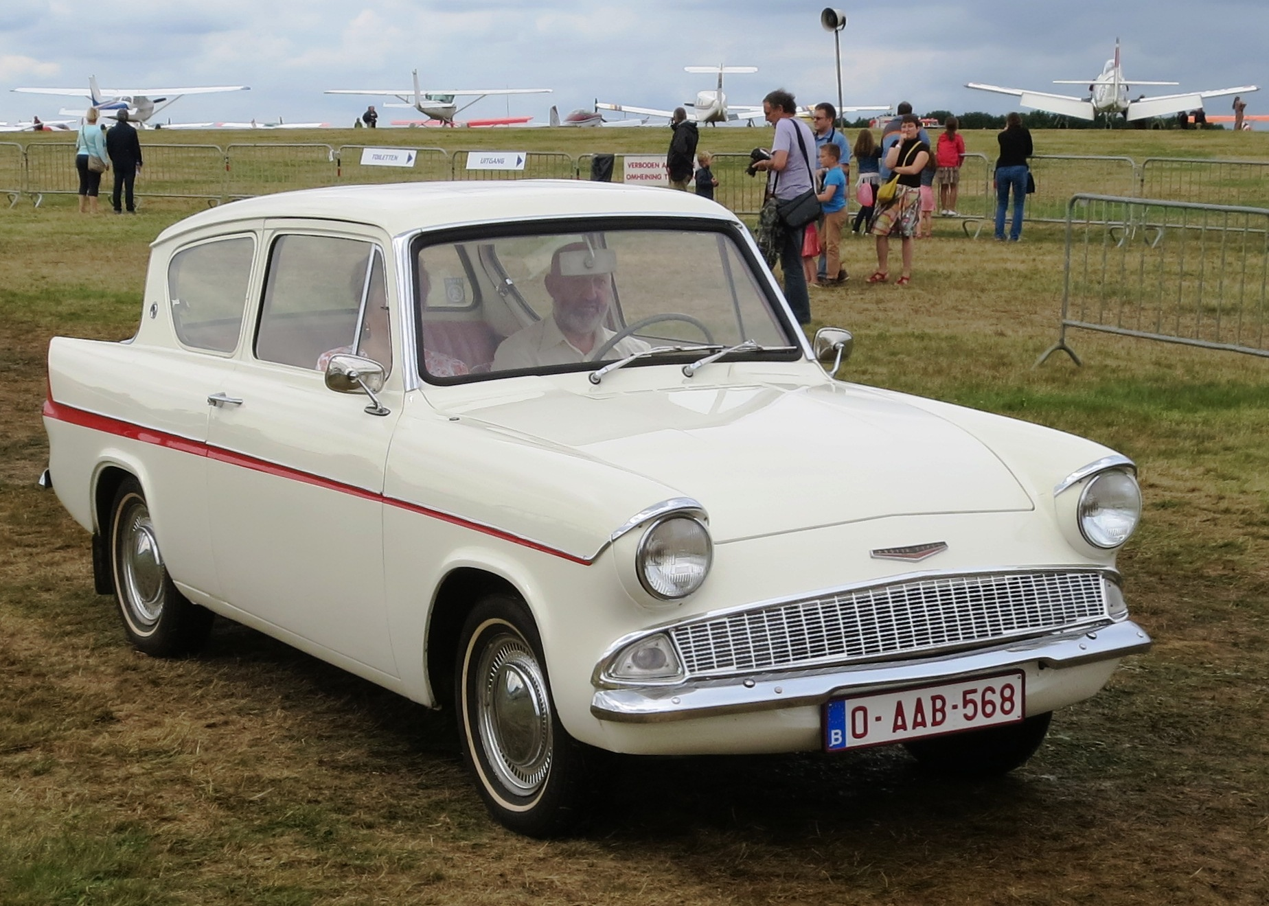 Ford Anglia 105E in Belgium